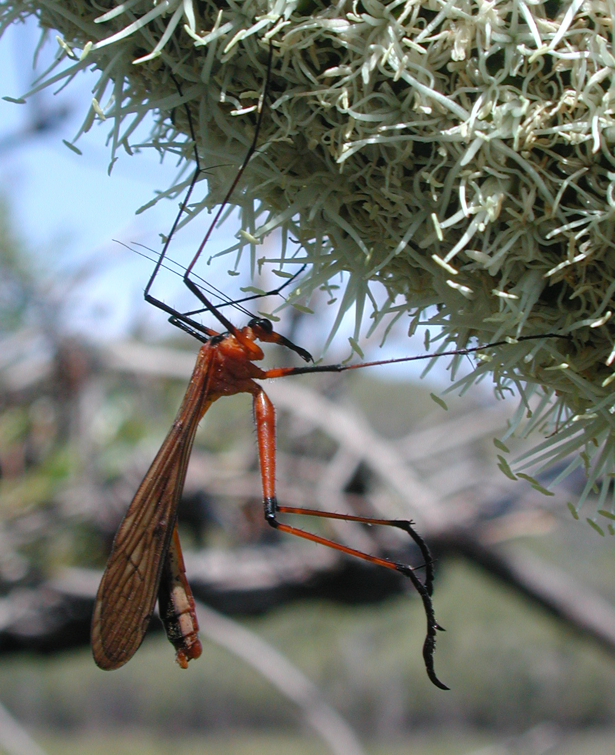 Bittacidae, Stradbroke Island, Queensland, Australia - Please have a look on diskussion!